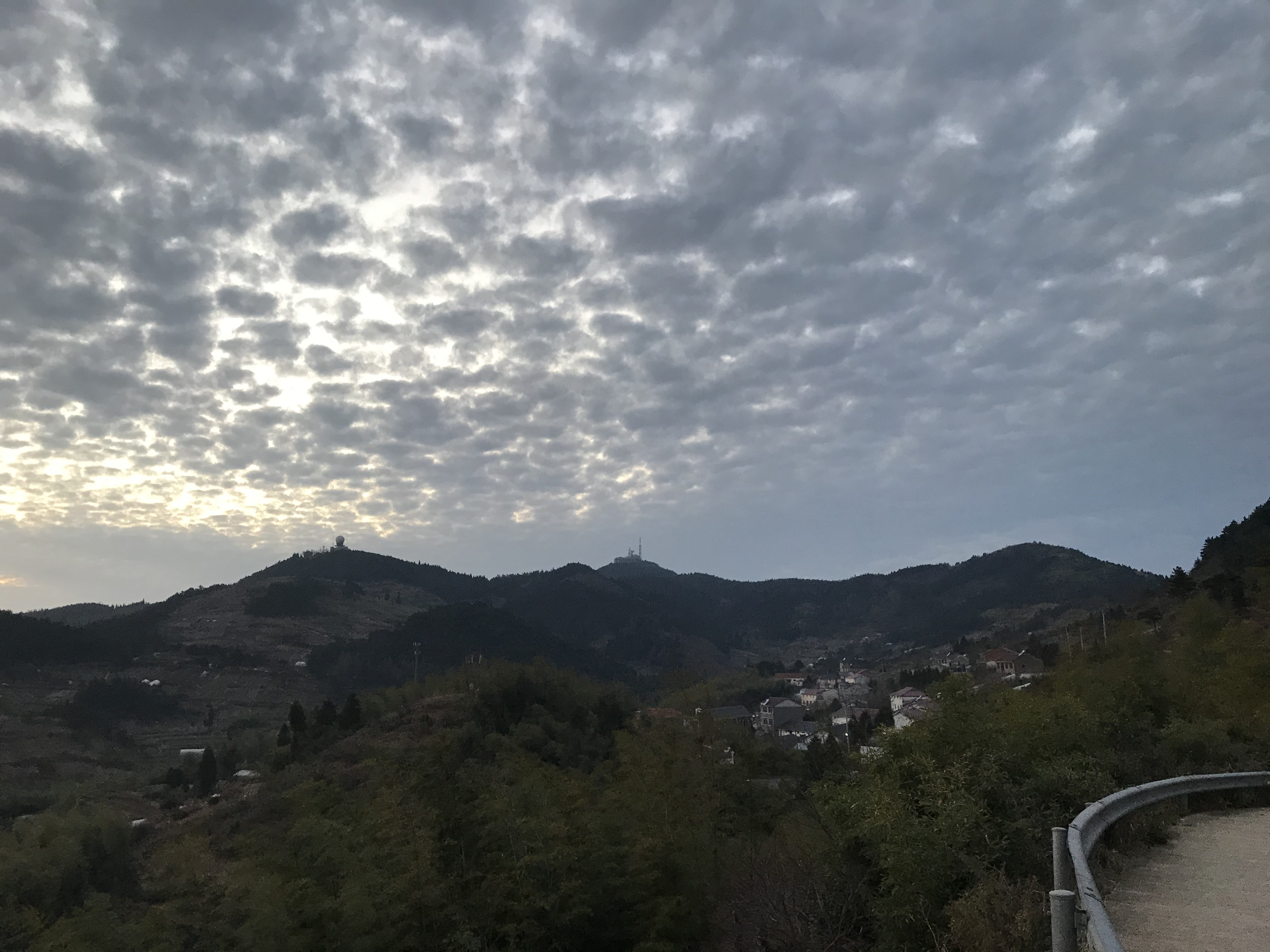 With a weather station by Meteorological Bureau, TV tower by Jinhua TV, a radar station and a heliport by Air Force.